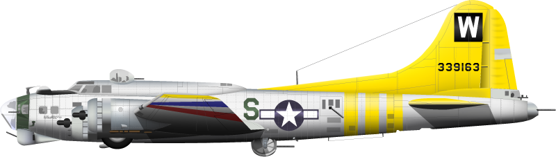 Boeing B-17G Happy Warrior of the 835th Bombardment Squadron, 486th Bombardment Group, 8th Air Force USAAF. Lost over Parchim April 7, 1945.